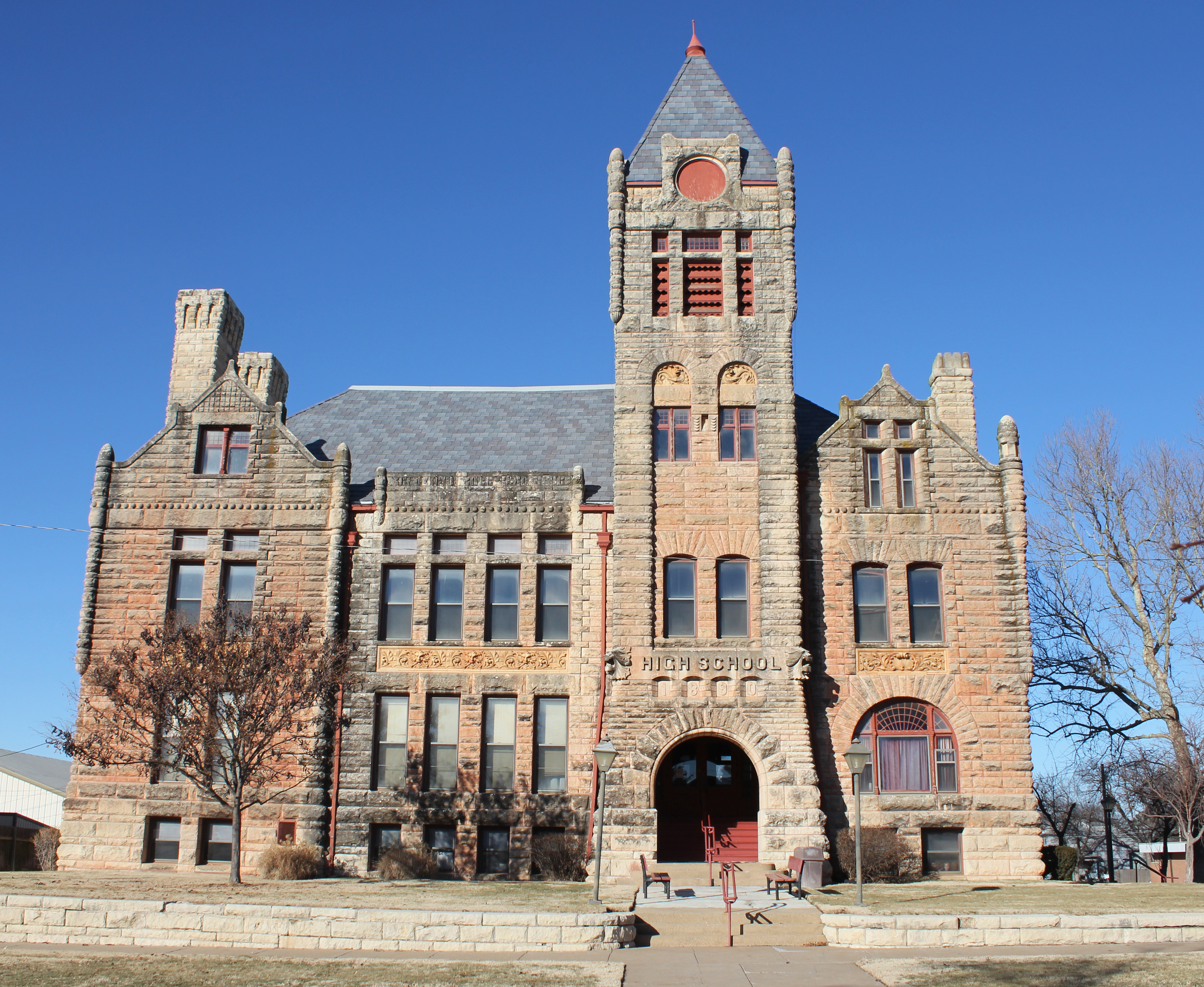 The Old Arkansas City High School, located at 300 Central Avenue in Arkansas City, Kansas. The property is listed on the National Register of Historic Places.